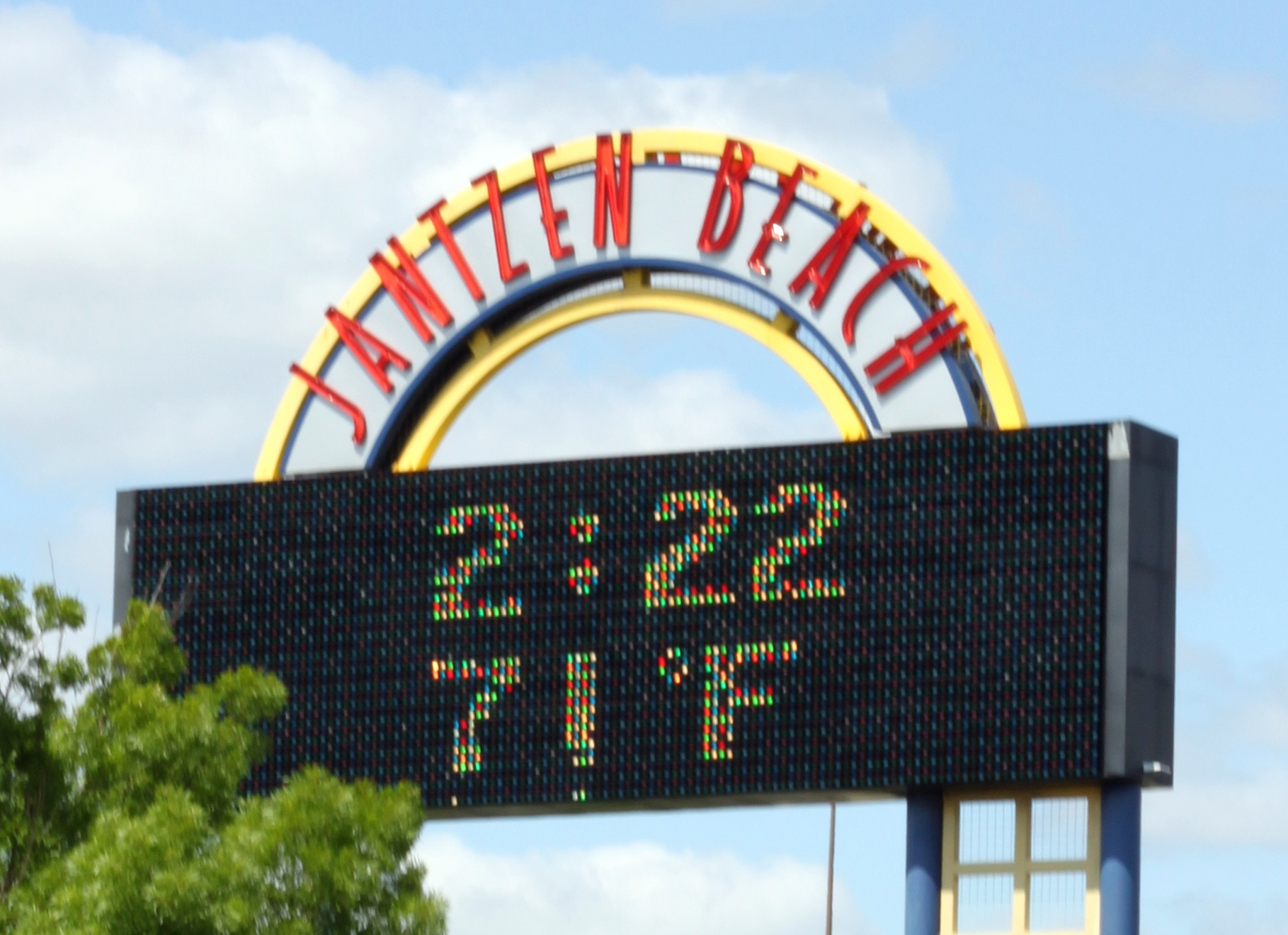 Jantzen Beach SuperCenter sign on Hayden Island near Portland, Oregon. My own photo from public property.